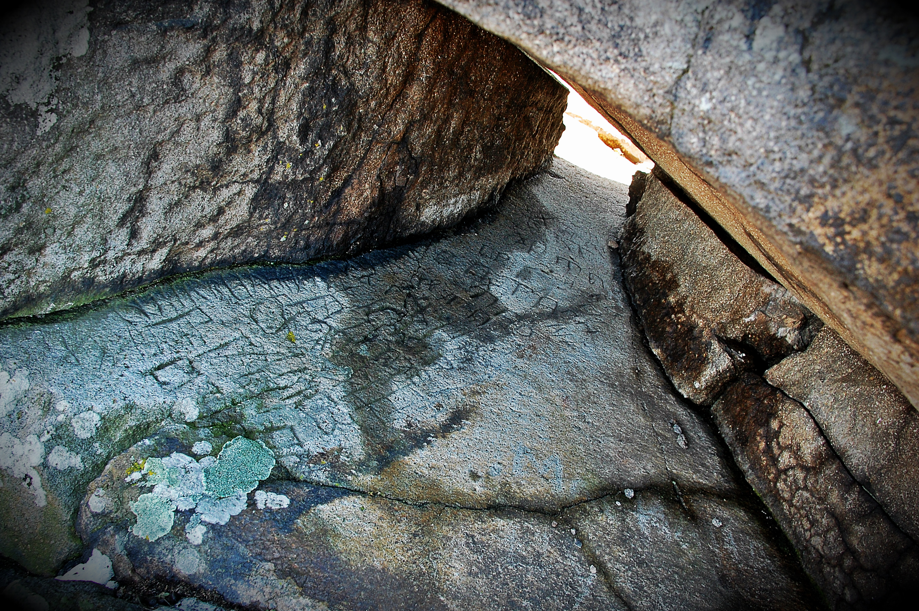 Dragoyna 44 BG